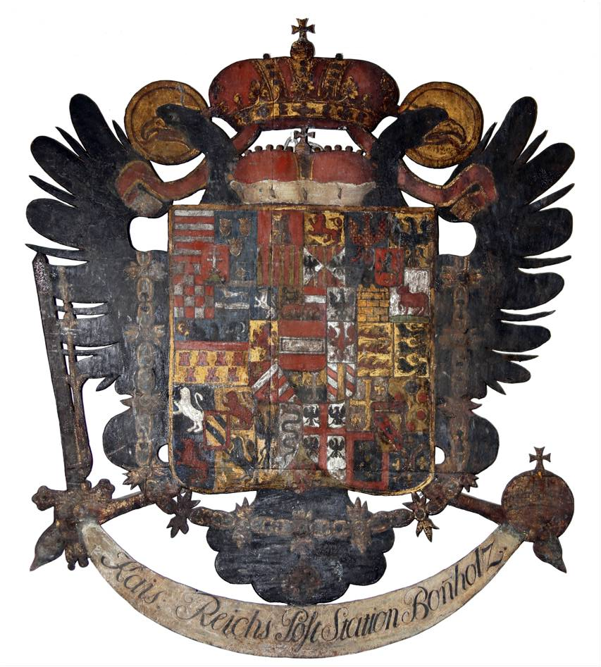 Imperial Arms of Alte Post Ponholz, Germany, now at Thurn und Taxis Library, Regensburg